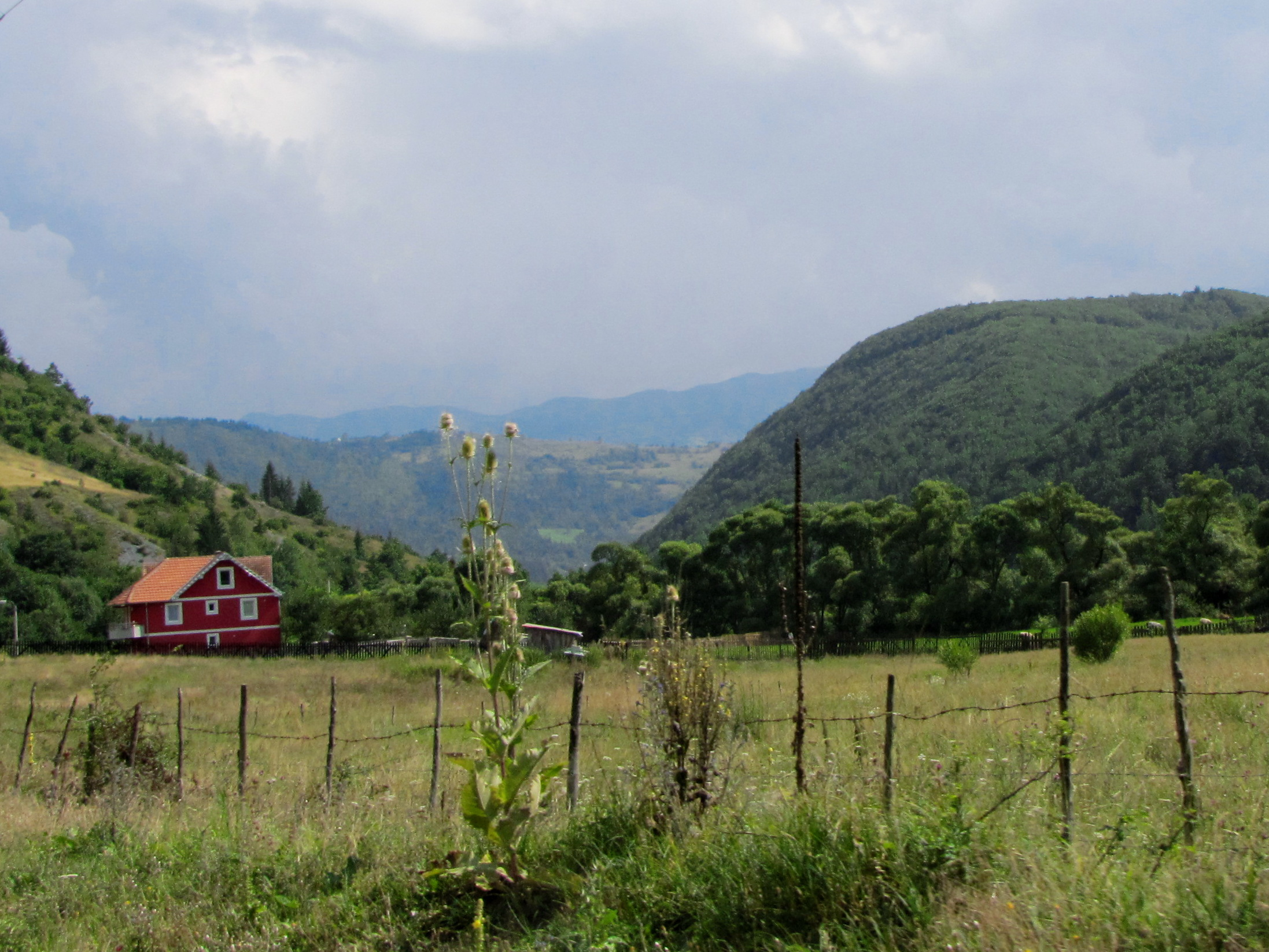 Vidrenjak river valley near village Gnila (Tutin, SW Serbia).